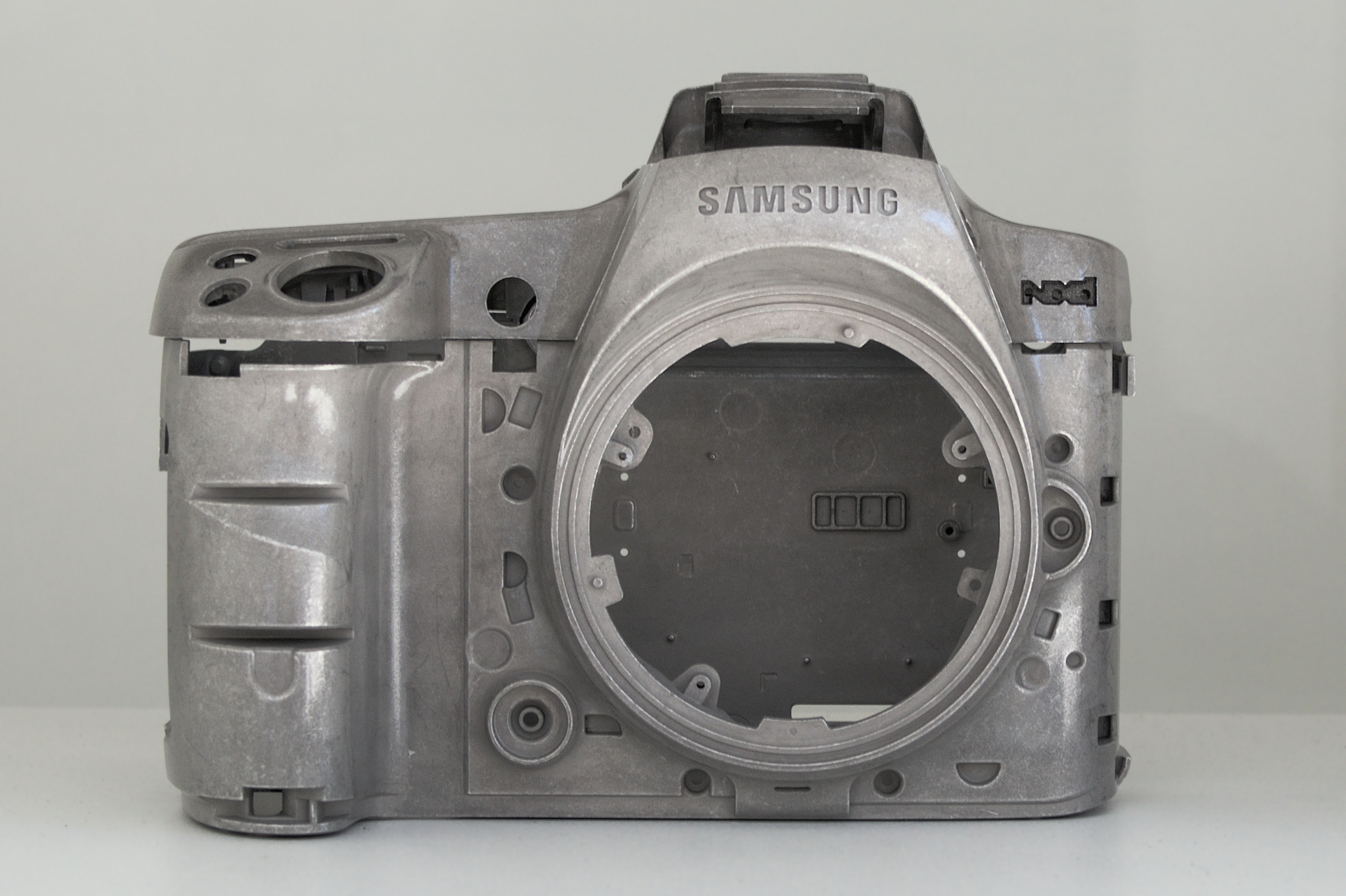 A bare Samsung NX1 chassis displayed in a photo shop's window